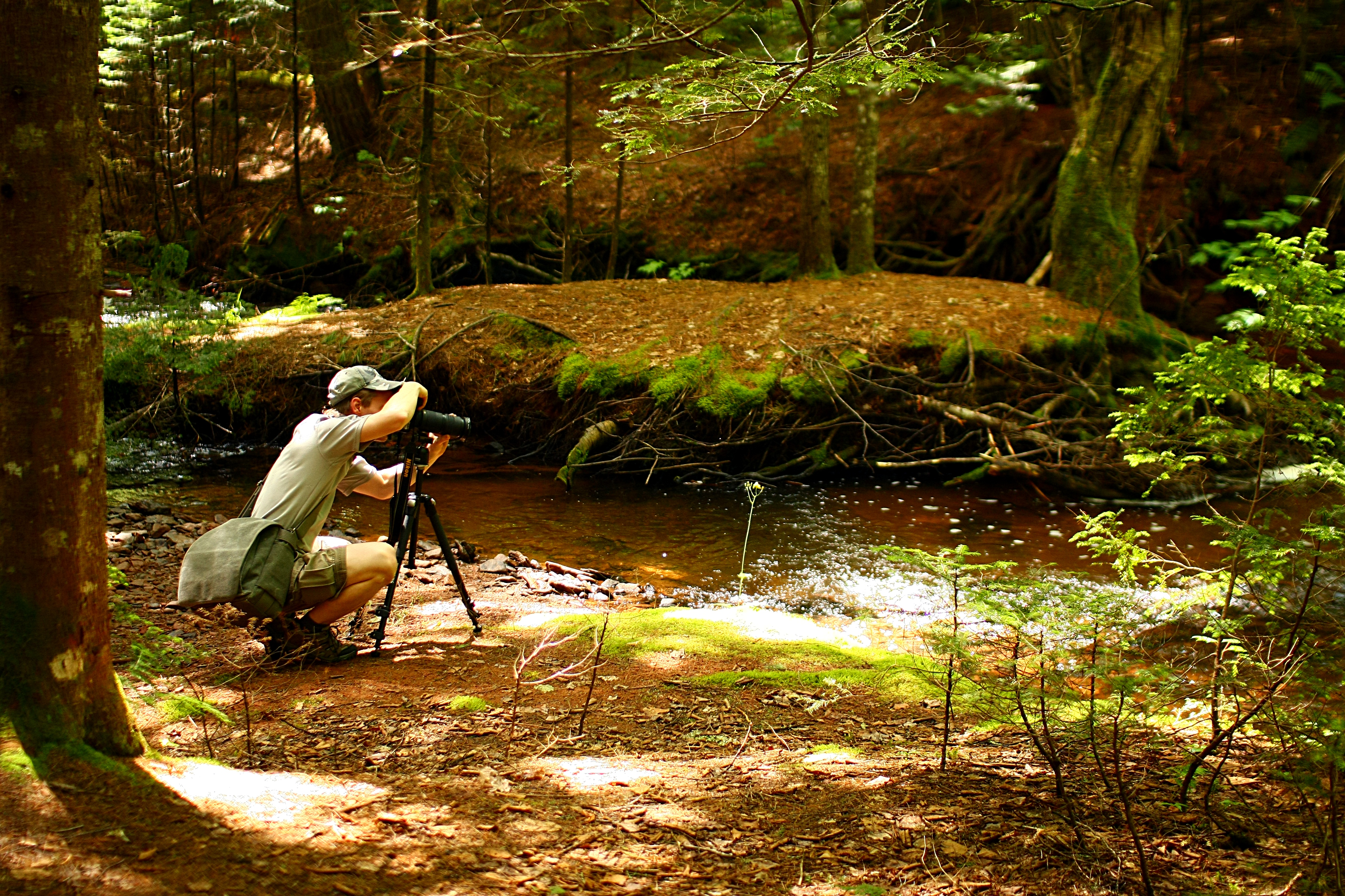 We tried to do a hike in the McPhail Woods, but the mosquitoes were insane, we probably barely lasted 10 minutes in there.